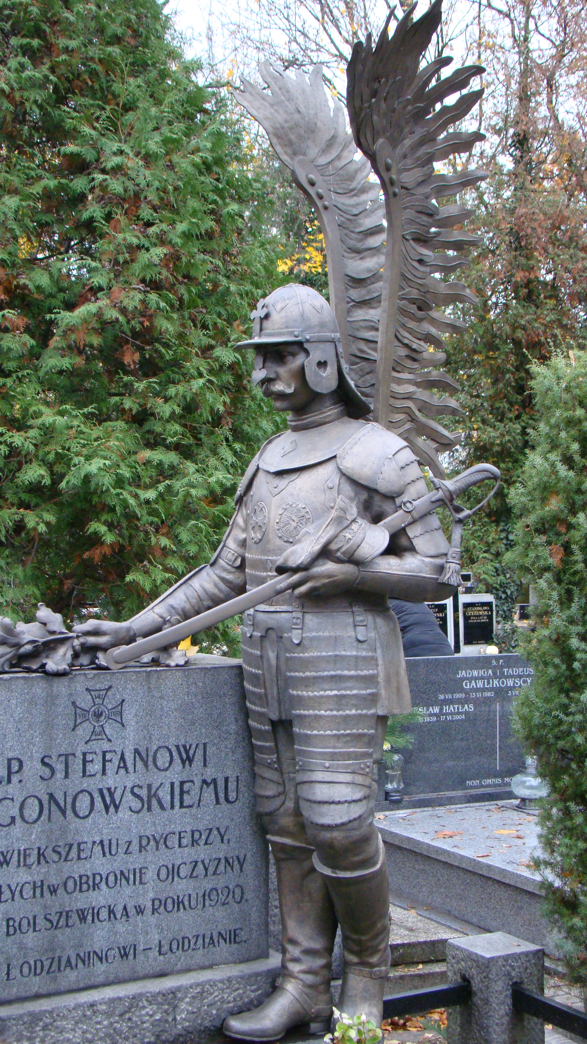 Stefan Pogonowski's grave